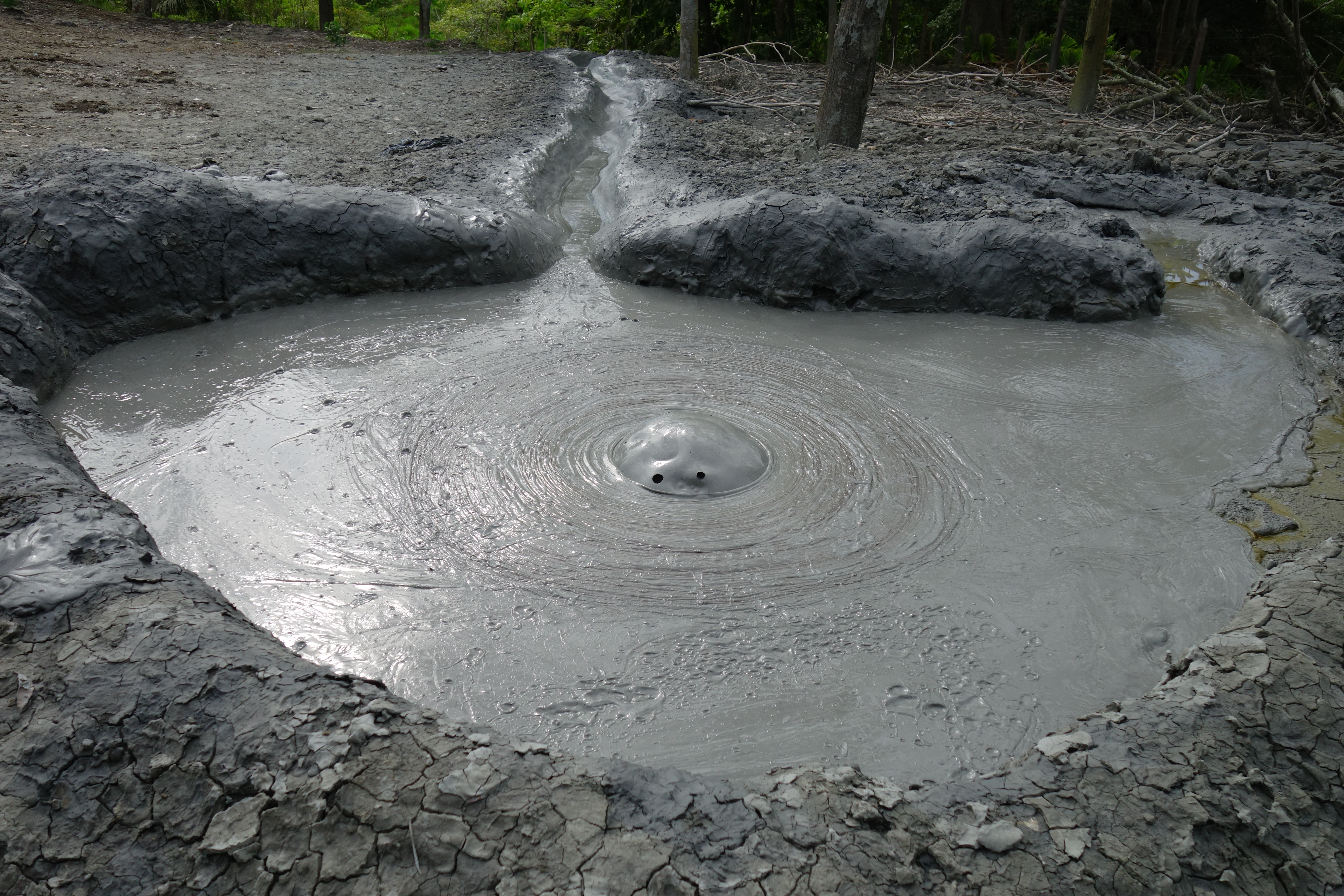 Mud Volcano outside of Necoclí, Colombia